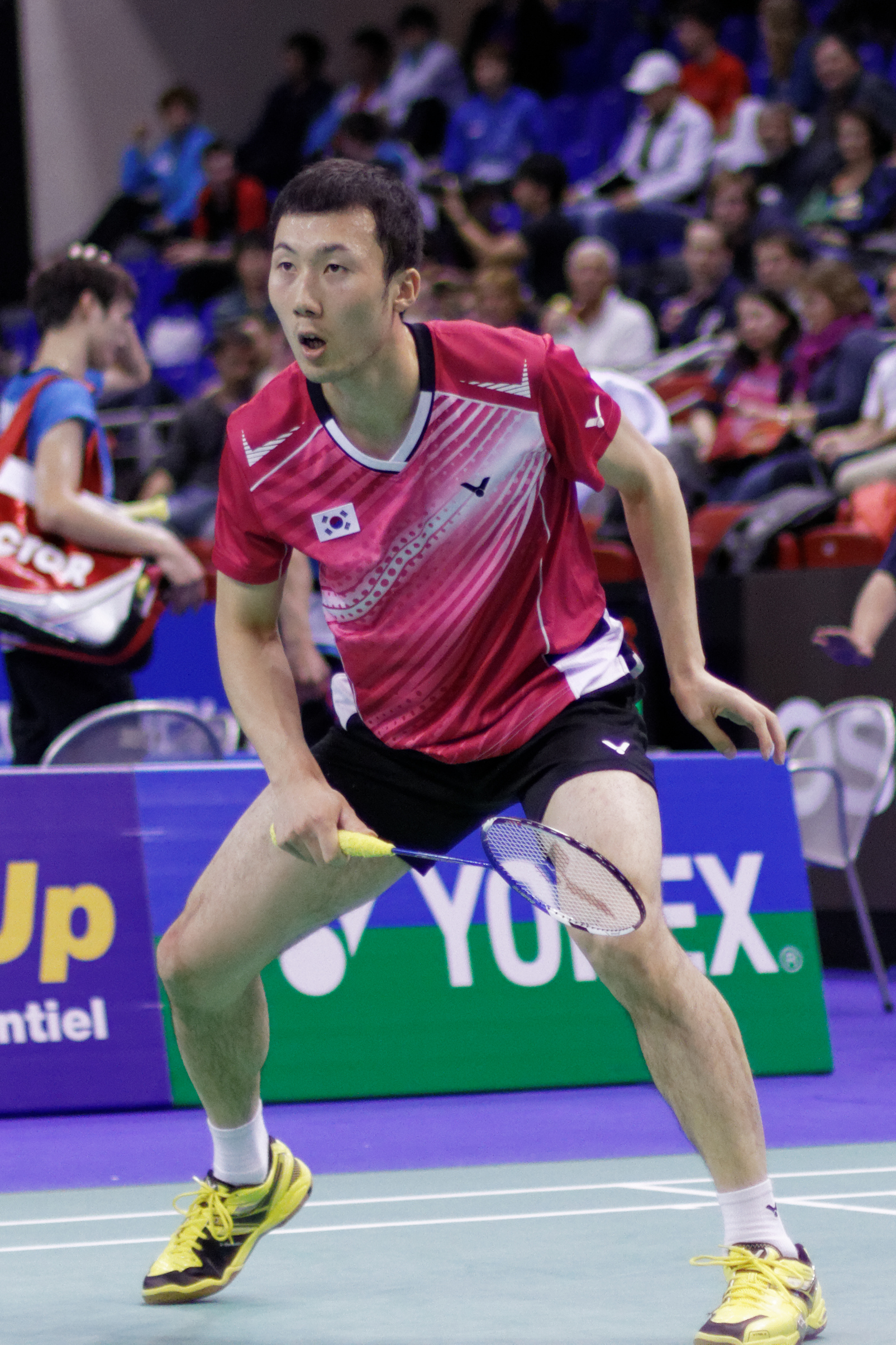 2013 French open. Men's doubles eightfinal. Lee Yong-dae and Yoo Yeon-seong vs Maneepong Jongjit and Nipitphon Puangpuapech.